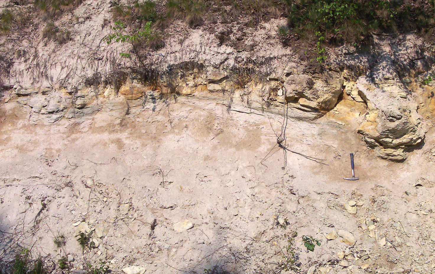 Lower Permian (Rotliegend) cap rocks of the crystalline basement of the Sprendlingen Horst in western slope of the Messel Pit Fossil Site. The originally red, poorly lithified sands are stained due to the reducing conditions in the vicinity of the Eocene oil shales.